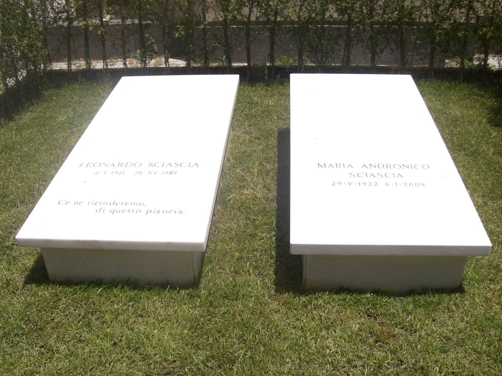 tombstones of Leonardo Sciascia and his wife in Racalmuto